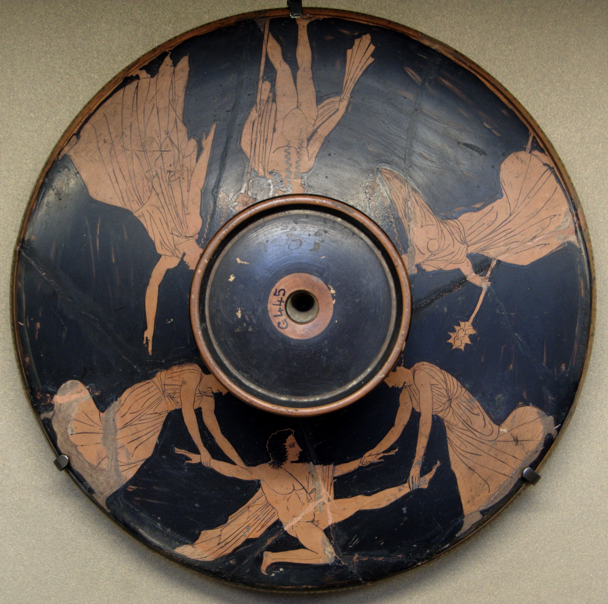 Pentheus torn apart by Agave and Ino, maenads. Attic red-figure lekanis (cosmetics bowl) lid, ca. 450-425 BC.